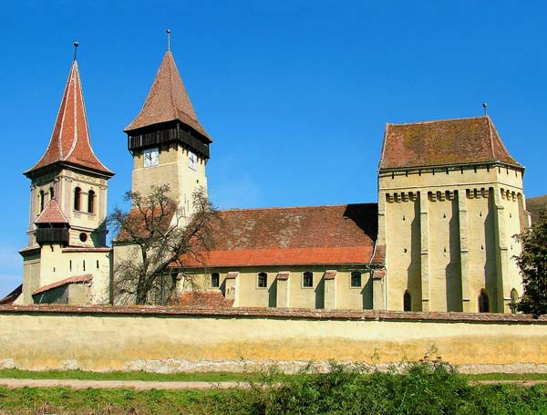 fortified church in Kisselyk (Şeica Mică, Sibiu County, Romania)